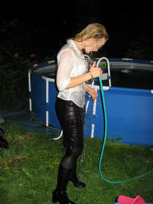 A woman wearing wet clothing.